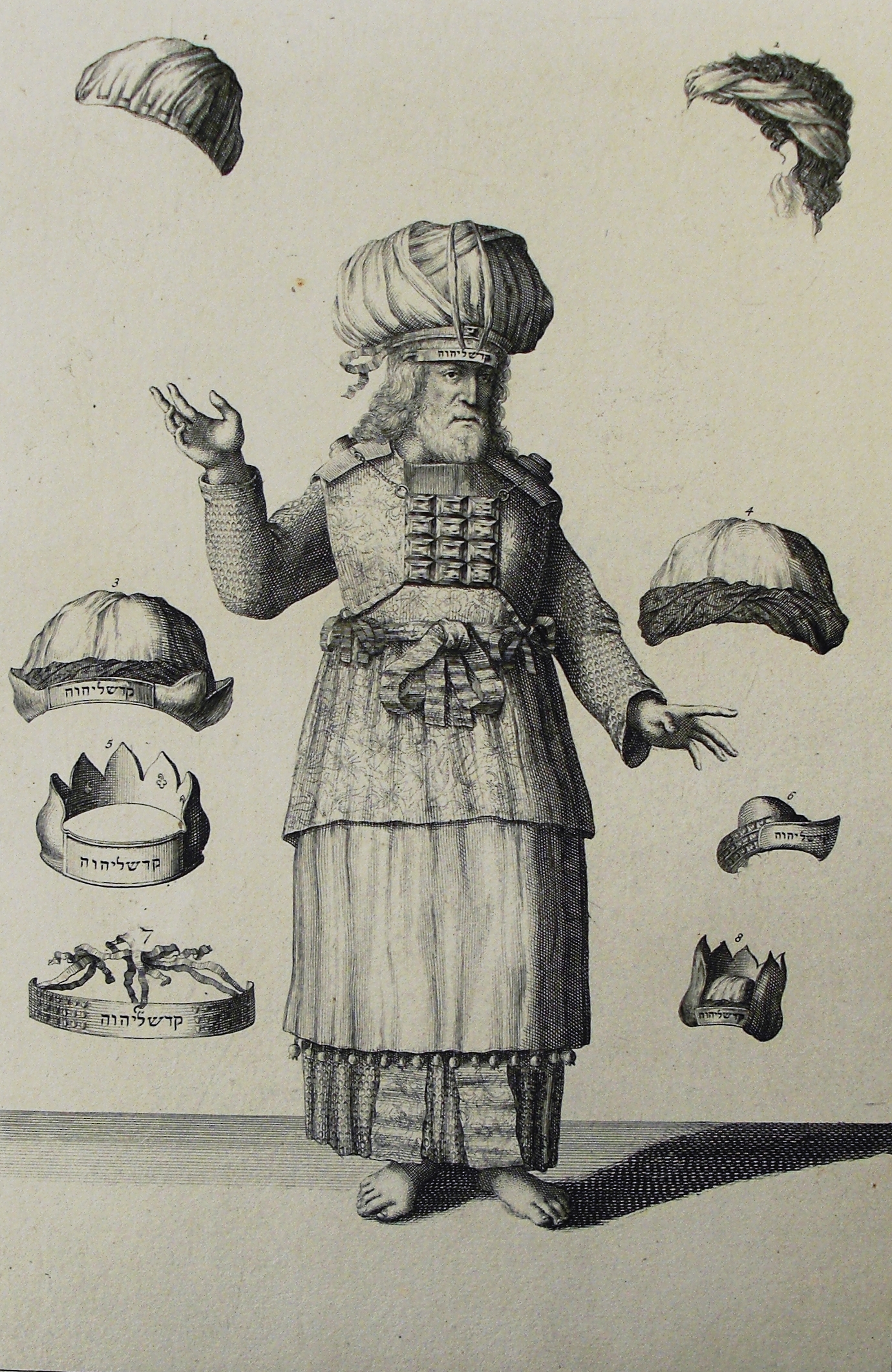 A print from the Phillip Medhurst Collection of Bible illustrations in the possession of Revd. Philip De Vere at St. George’s Court, Kidderminster, England.